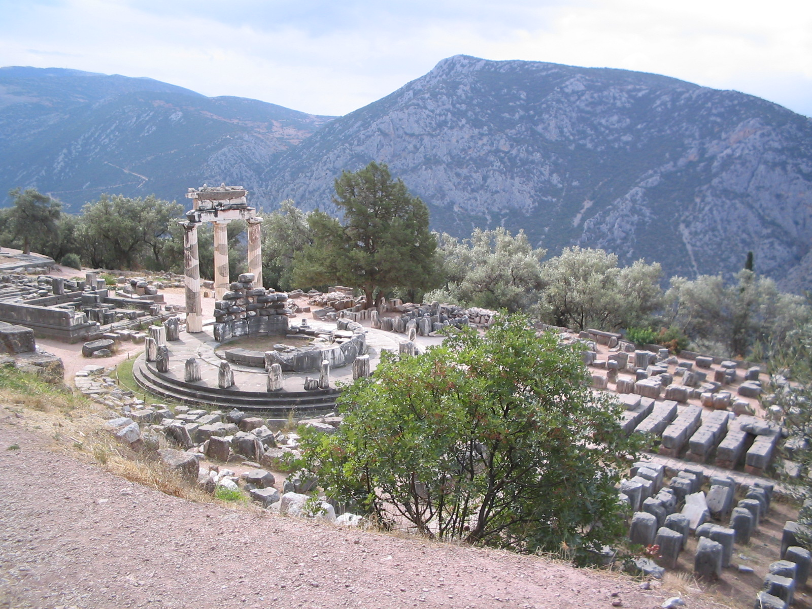 The Tholos temple, Sanctuary of Athena Pronaia, Delphi, Greece